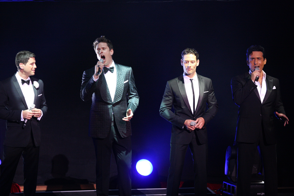 Il Divo Orchestra in Concert At Sydney Opera House Il Divo (divine male performer in Italian) performed at the world famous Sydney Opera House tonight - Valentine's Day in Australia. They are a multinational operatic pop vocal group created by music manager, executive, and reality TV star Simon Cowell. They are currently signed to Sony Music Entertainment. The group was originated in the UK, however most people believe they were formed in Italy. Il Divo is a group of four male singers: French pop singer Sébastien Izambard, Spanish baritone Carlos Marín, American tenor David Miller, and Swiss tenor Urs Bühler. To date, they have sold more than 26 million albums worldwide. Sebastien told the press: "We're so excited to be kicking off our 2012 tour in Australia. Valentines Day, performing at the Sydney Opera House is going to be such a memorable start to a world tour... it really feels like coming home. It’s a country full of my favourite things: Tim Tams, Whale Beach, shopping on Chapel Street and one of the best zoos in the world. We can't wait to have the time whilst on tour to enjoy it all!" Izambard, who married Melbourne publicist Renee back in 2008, also said he couldn't wait to spend time at the beach and have barbecues with his Australian relatives. "It always feels like coming home for me," he said. They have more than 25 million album sales globally, 150 gold and platinum discs and have more than 2 million concert tickets sold. The idea behind Il Divo's creation came to Cowell after hearing Andrea Bocelli singing Con te partirò while watching The Sopranos. They combine amazing voices, class and great looks. The group is expected to continue to draw strong audience numbers while touring Australia. Websites Il Divo Sydney Opera House Live Nation Flourish PR Eva Rinaldi Photography Flickr Eva Rinaldi Photography Music News Australia